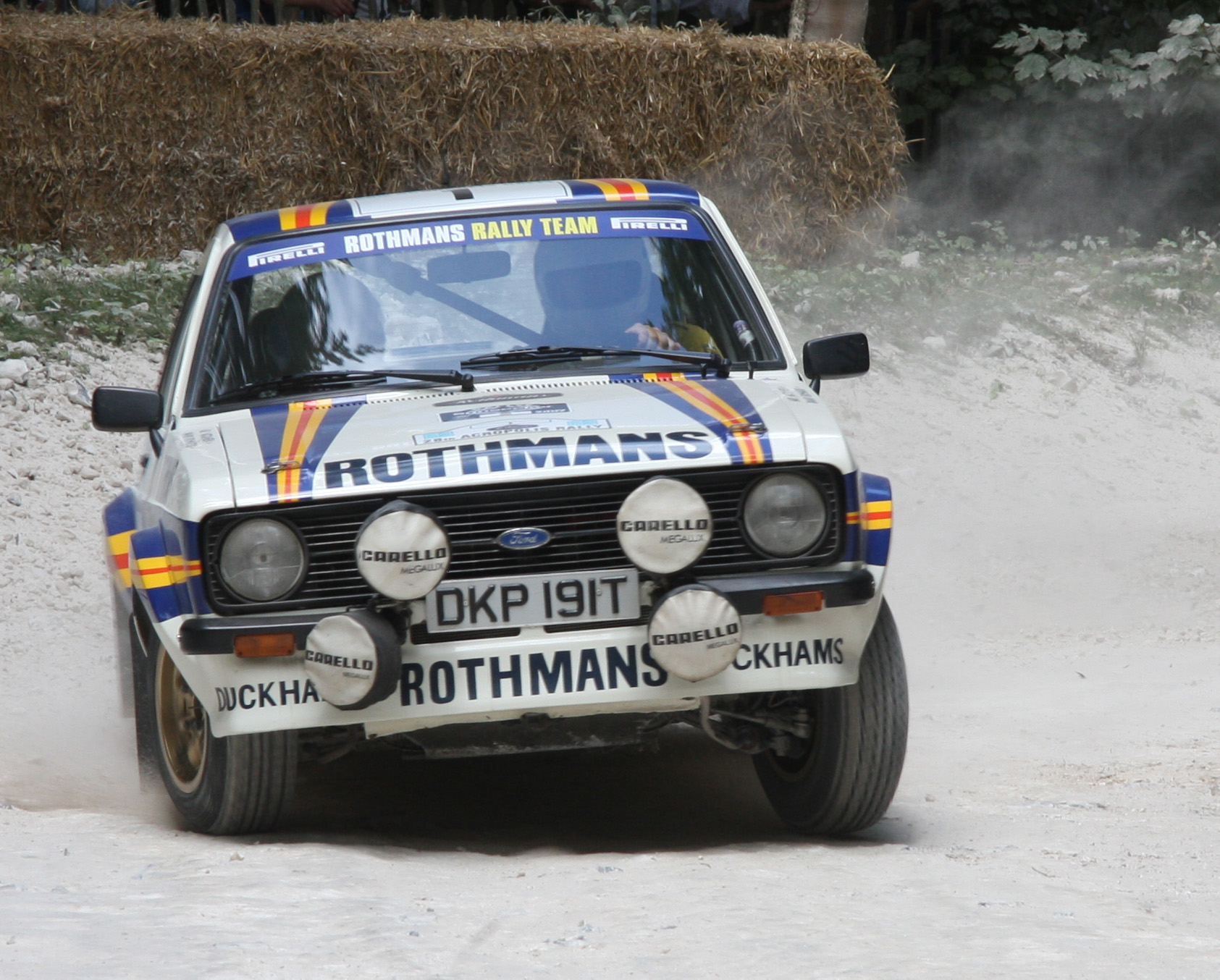 Ford Escort Mk2 Group 4